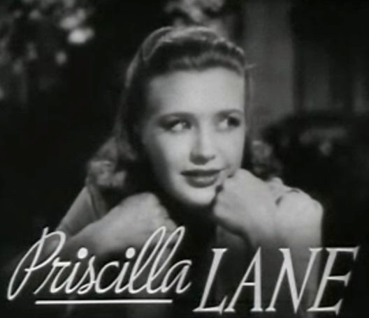 Cropped screenshot of Priscilla Lane from the trailer for the film Four Daughters